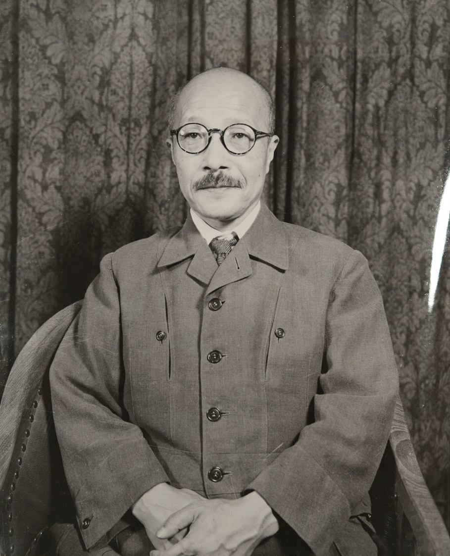 Hideki Tōjō during the trial for war crimes at International Military Tribunal for the Far East